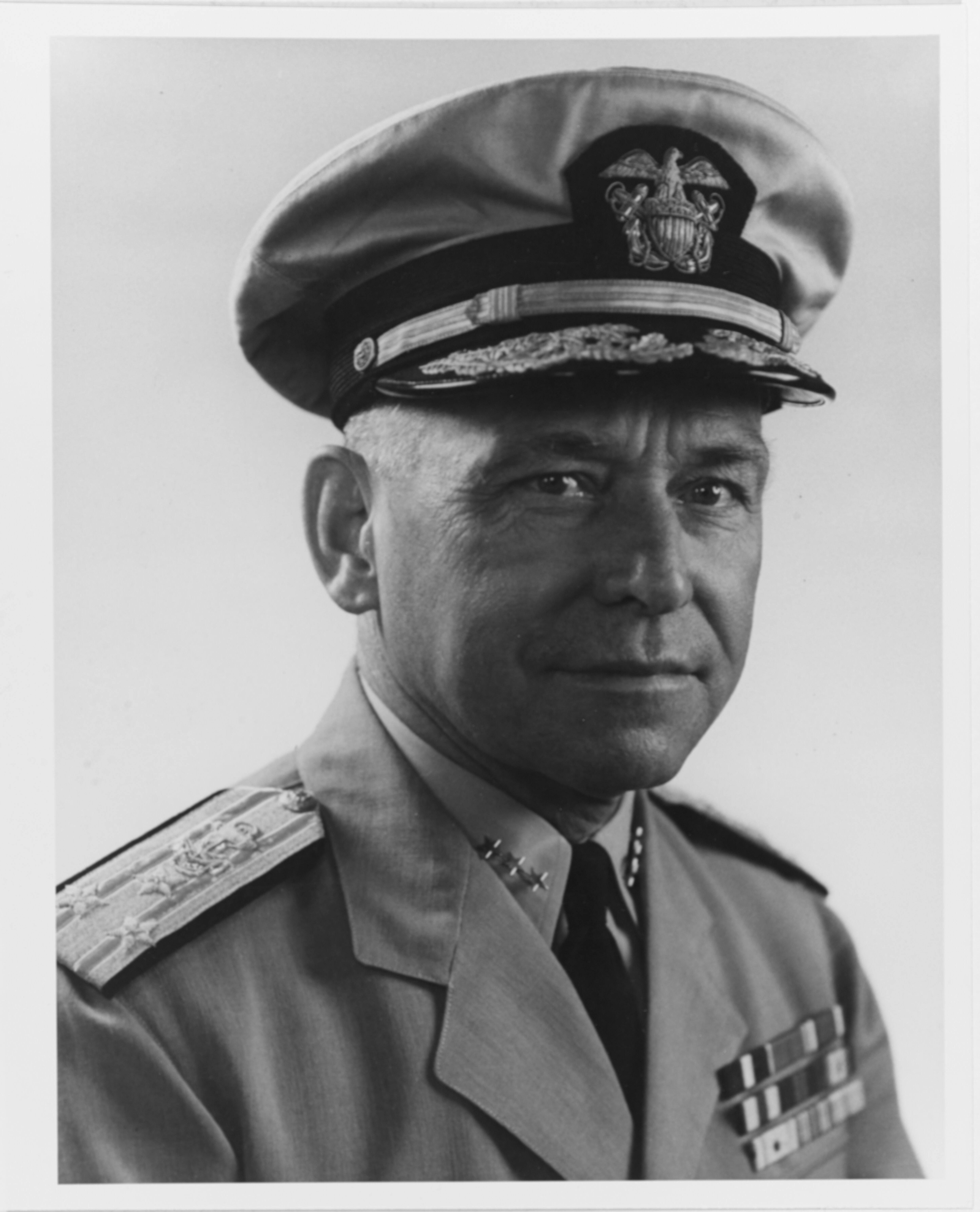 Vice admiral John H. Newton, Deputy Commander in Chief Pacific Fleet and Pacific Ocean areas, 19 October, 1943-28 February, 1944.